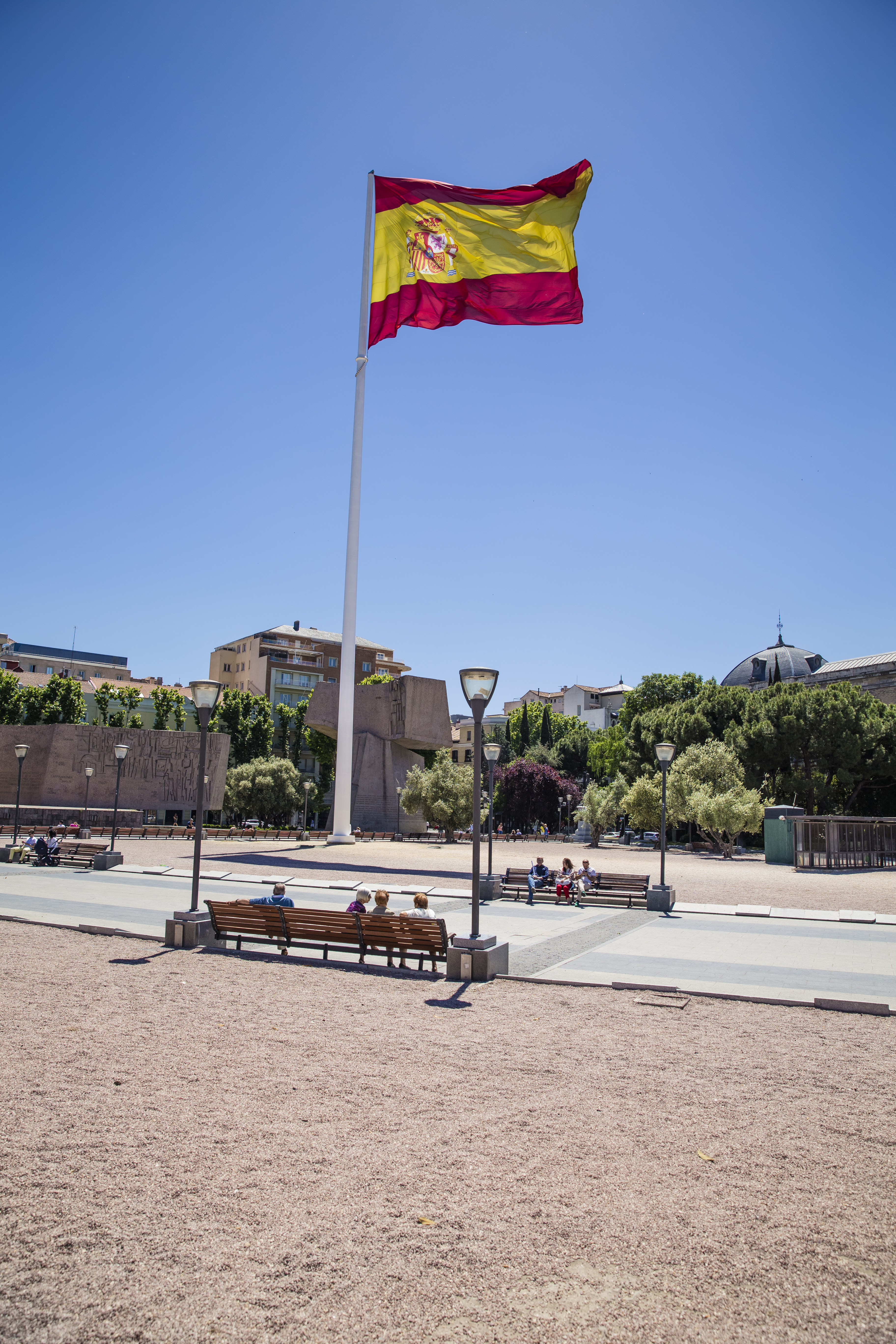 Tour around the City of Madrid Spain